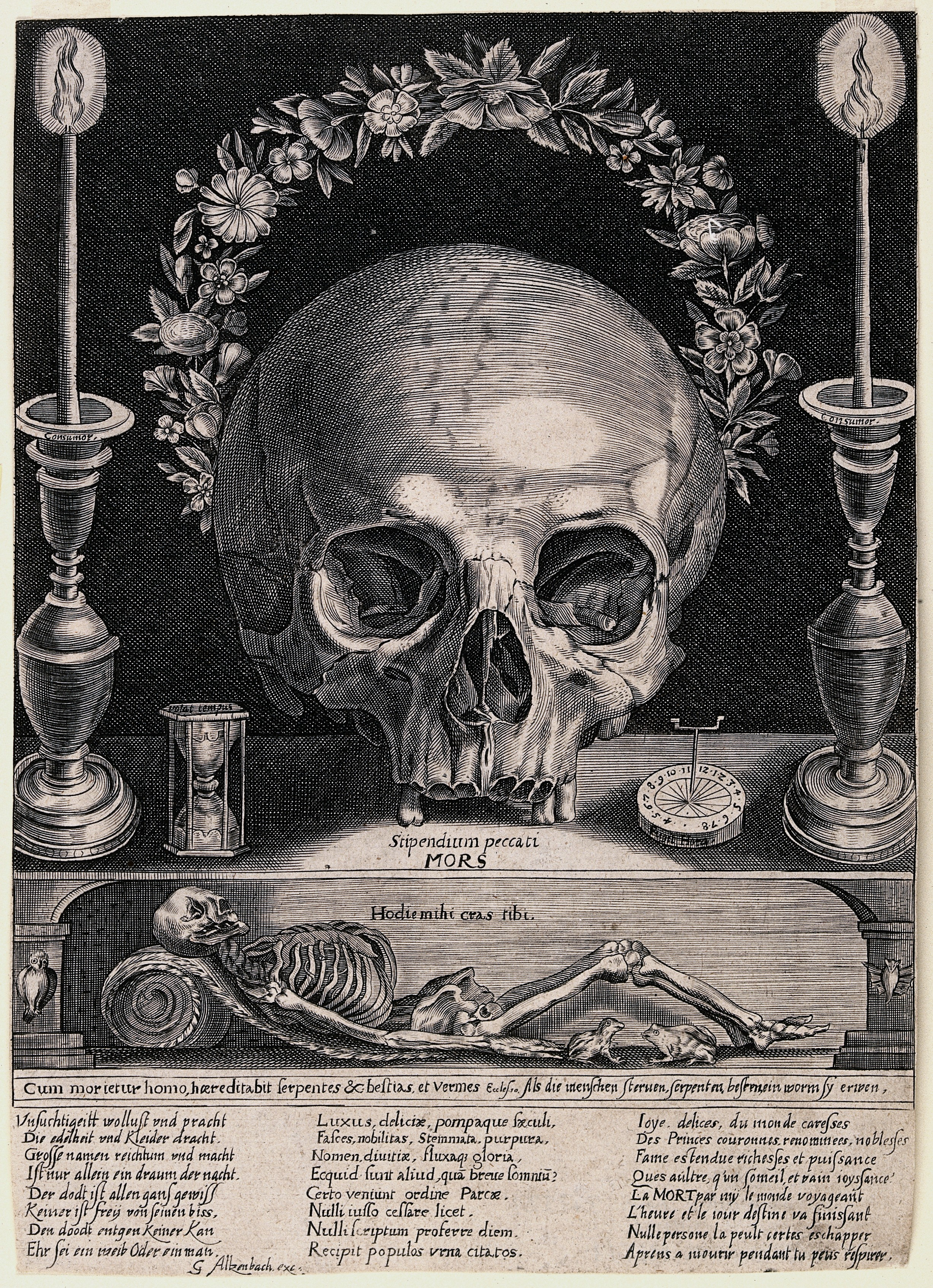 A skull, a skeleton, candles and other symbols of mortality. Engraving attributed to G. Altzenbach, [16--].Iconographic CollectionsKeywords: Gerhart Altzenbach